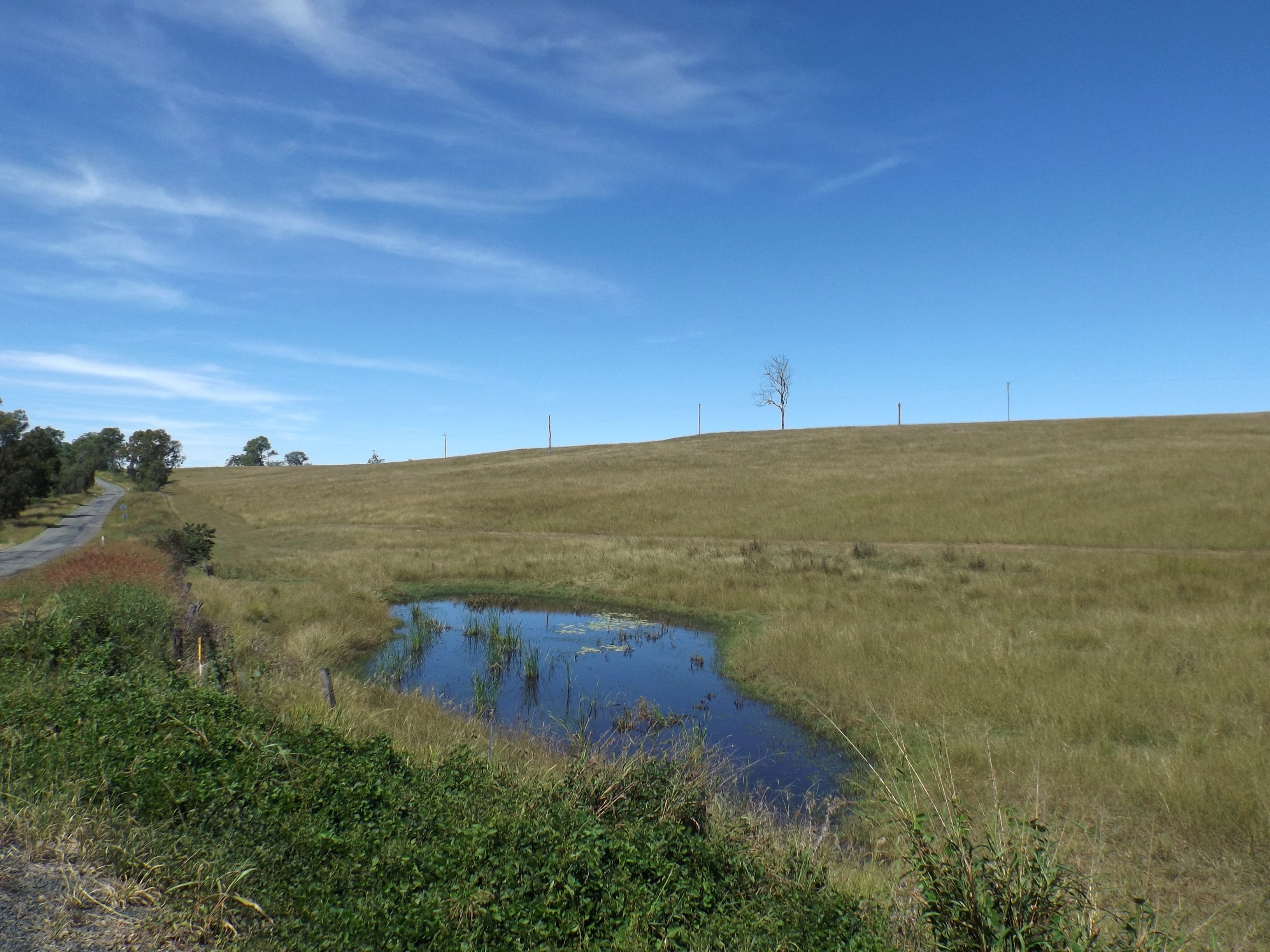 Photo of fields along Rosewood Warrill View Road at Coleyville, Scenic Rim Region, Queensland, Australia.